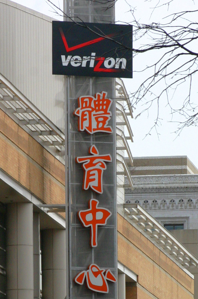 The recent name change on the arena from the MCI Center to the Verizon Center